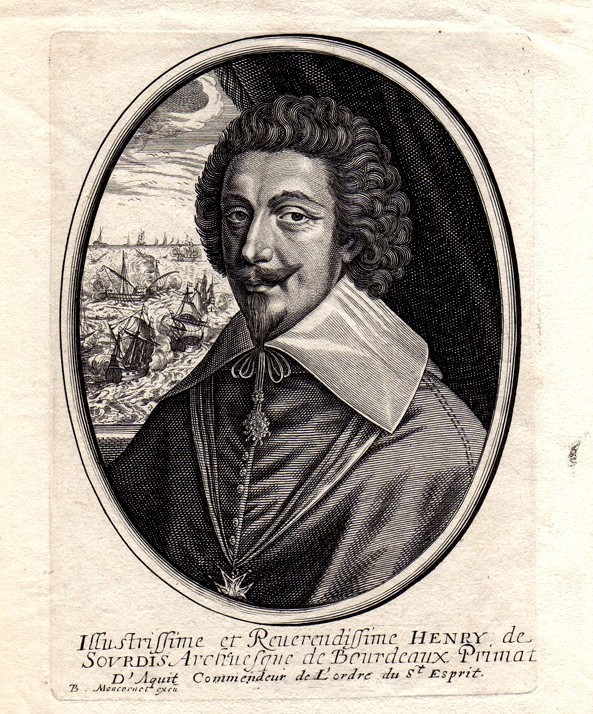 Portrait of Henri d'Escoubeau de Sourdis (1593-1645)